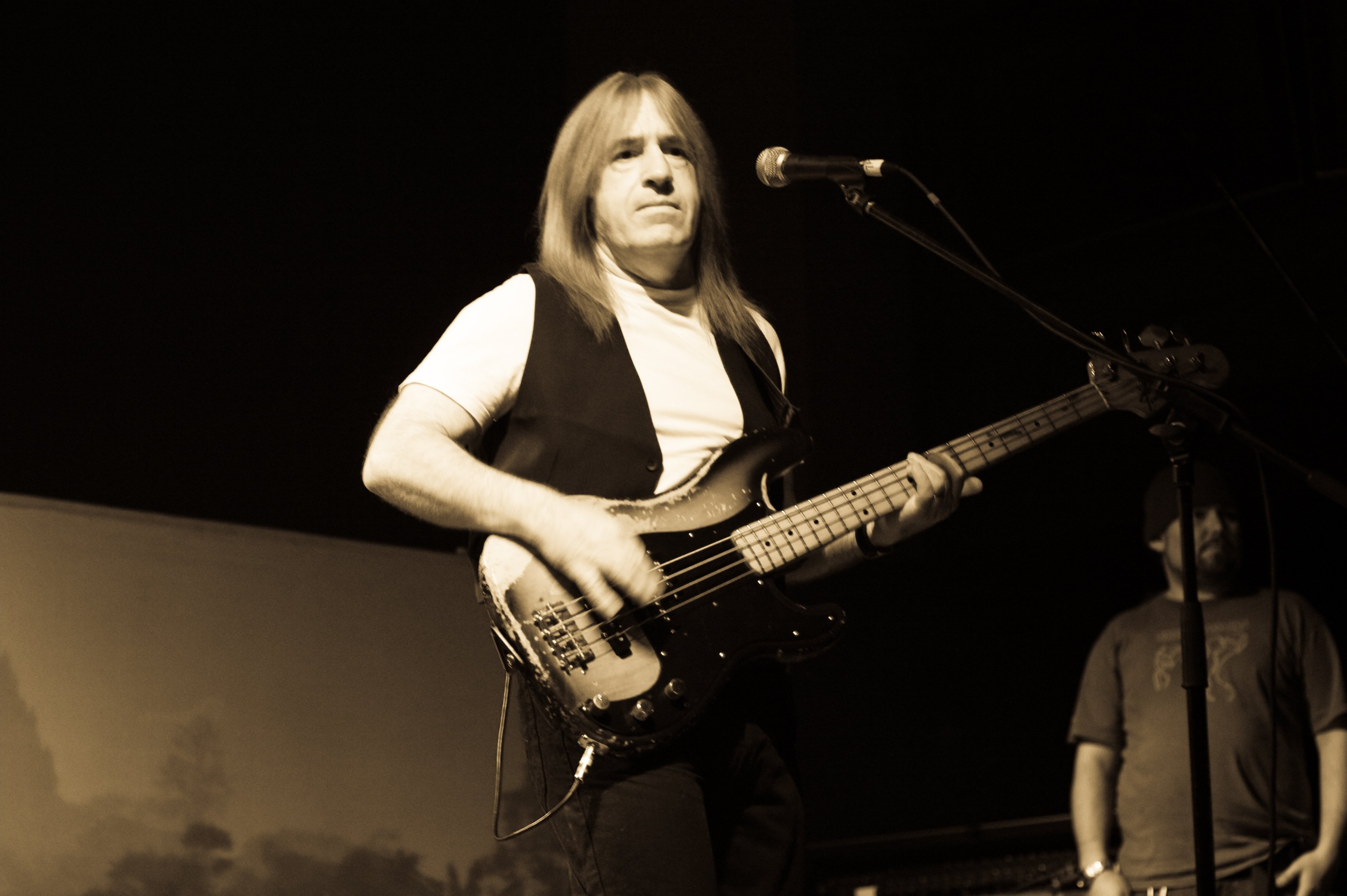 Uriah Heep's Trevor Bolder, Live in Milan, 09 November 2008